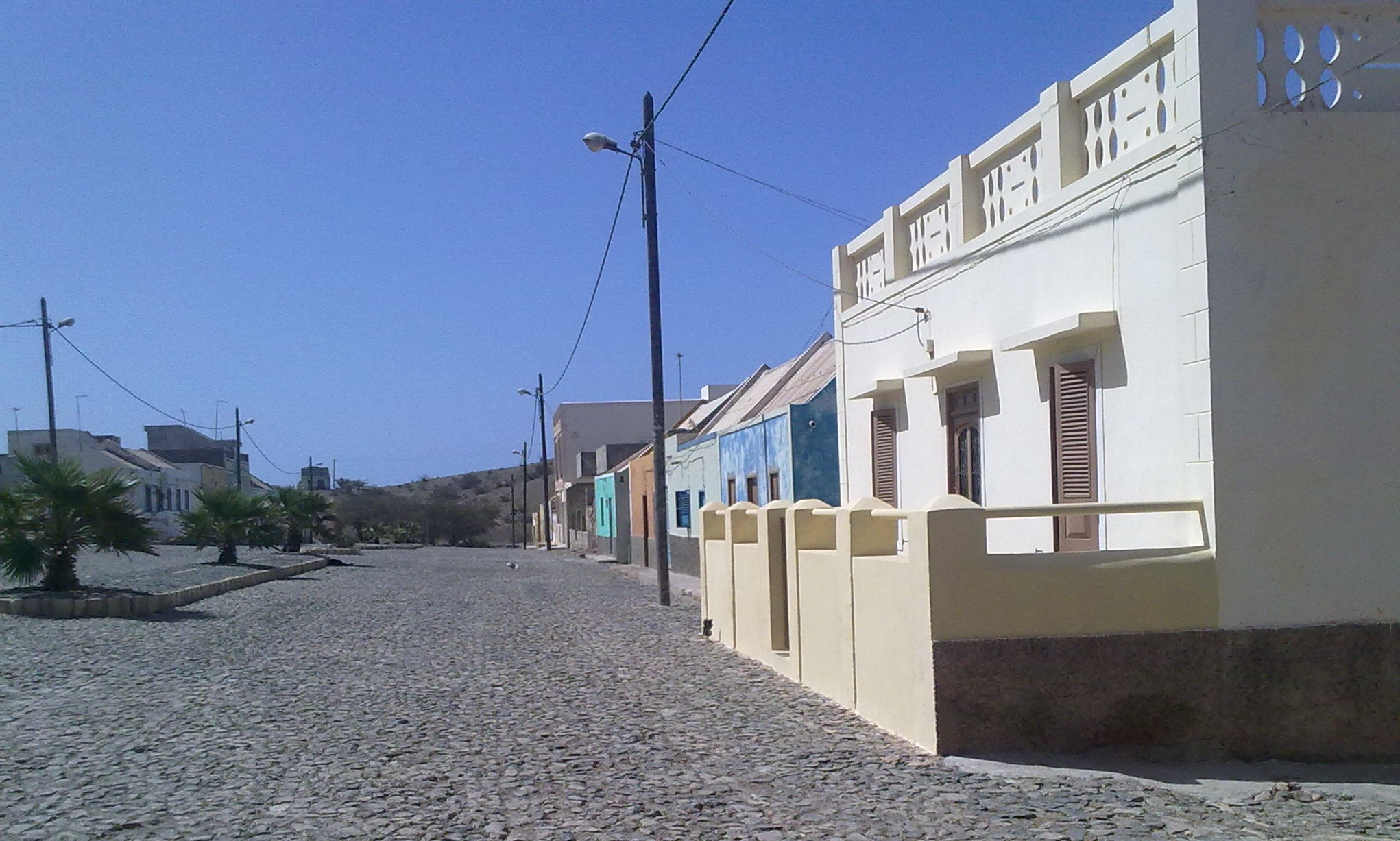 Street at Povoação Velha, Cape Verde.